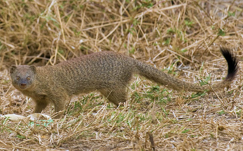 Slender Mongoose from Serengeti National Park, Tanzania